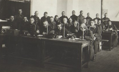 Training of the Bulgarian Signal Corps, 1920 - 1930